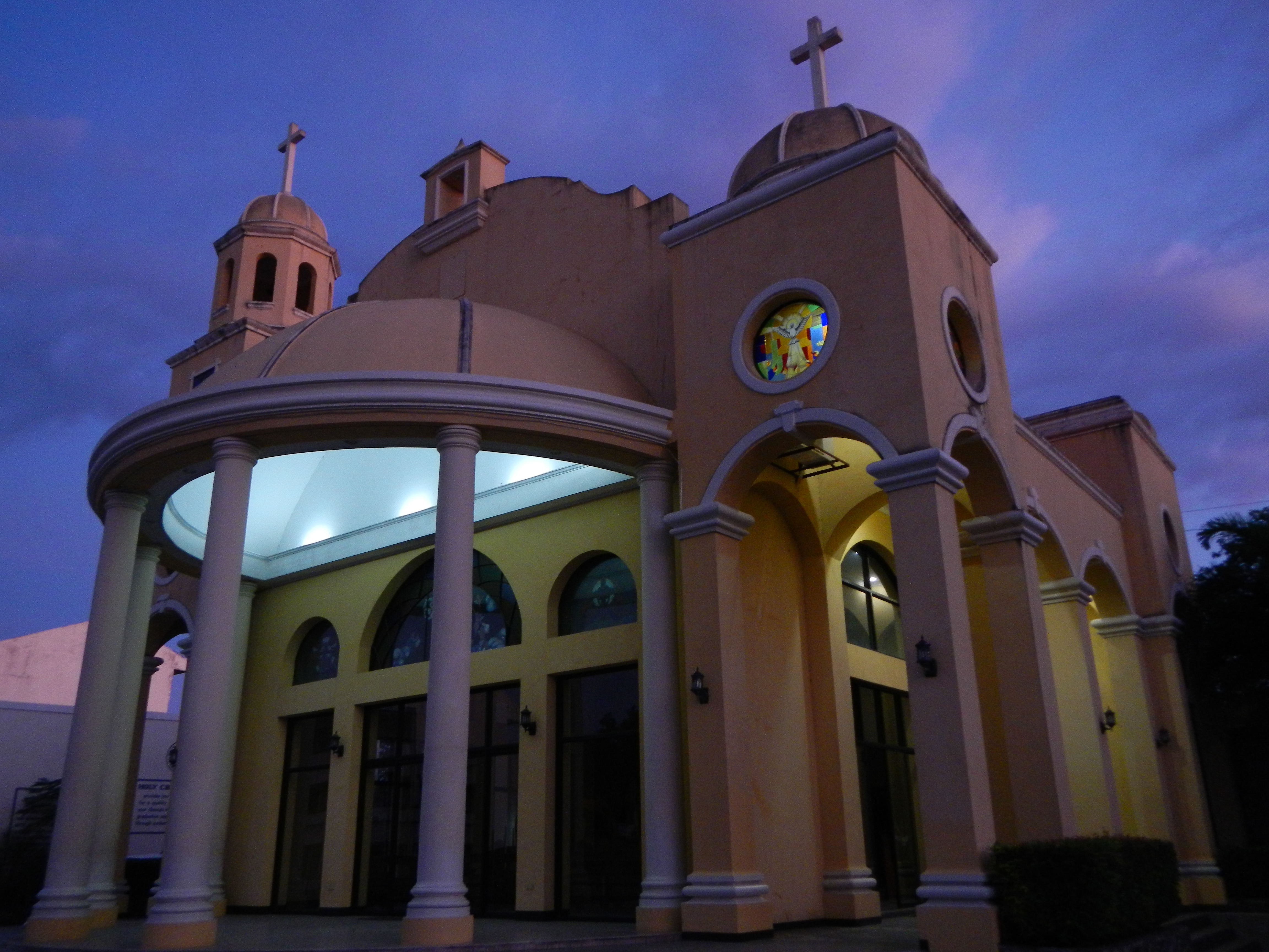 Santa Rosa, Nueva Ecija[1]